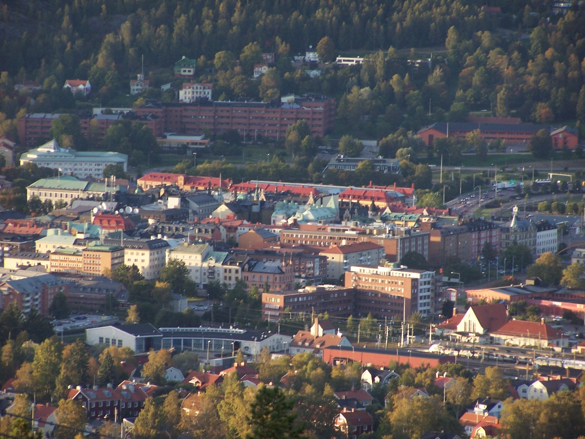 Sundsvall city centre, view from Södra Berget, Sweden